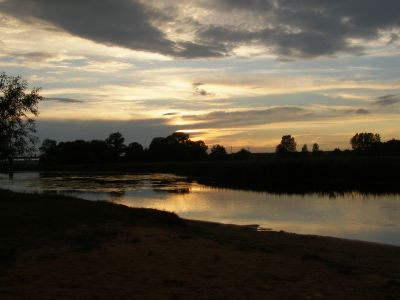 The Biebrza river at dawn, seen from the town beach in Goniądz, Poland